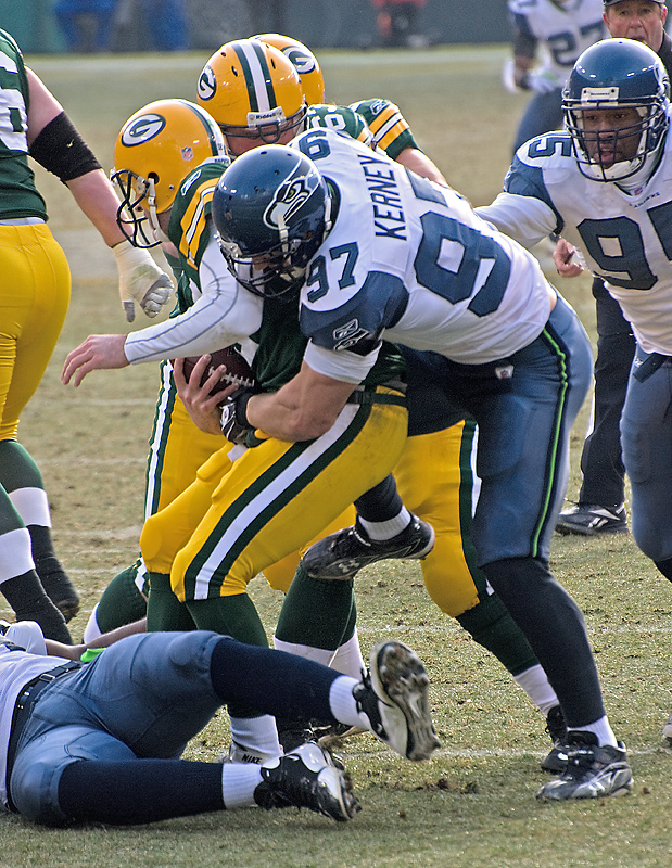 Seattle vs. Green Bay • December 27, 2009 at Lambeau Field in Green Bay, Wisconsin.